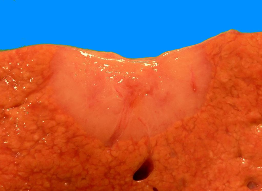 Gross pathologic image of a von Meyenburg complex - a bile duct hamartoma. See also Image:Von Meyenburg complex low mag.jpg - micrograph of a von Meyenburg complex.